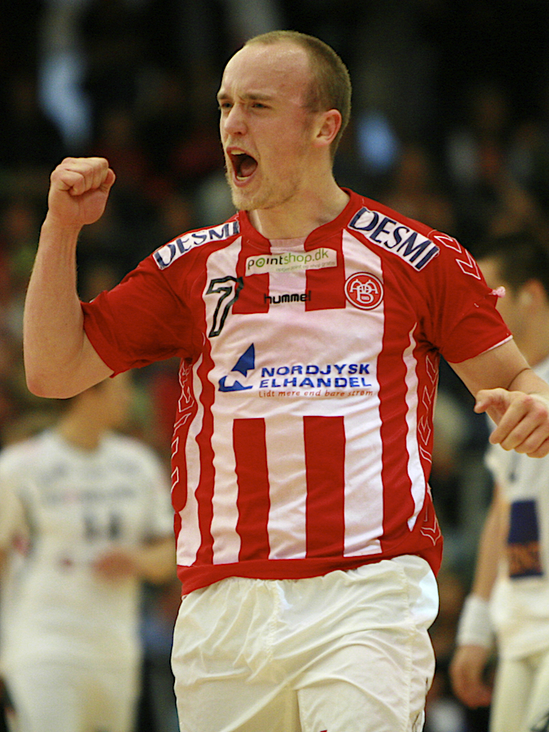 Jan Lennartsson from AaB Handball.